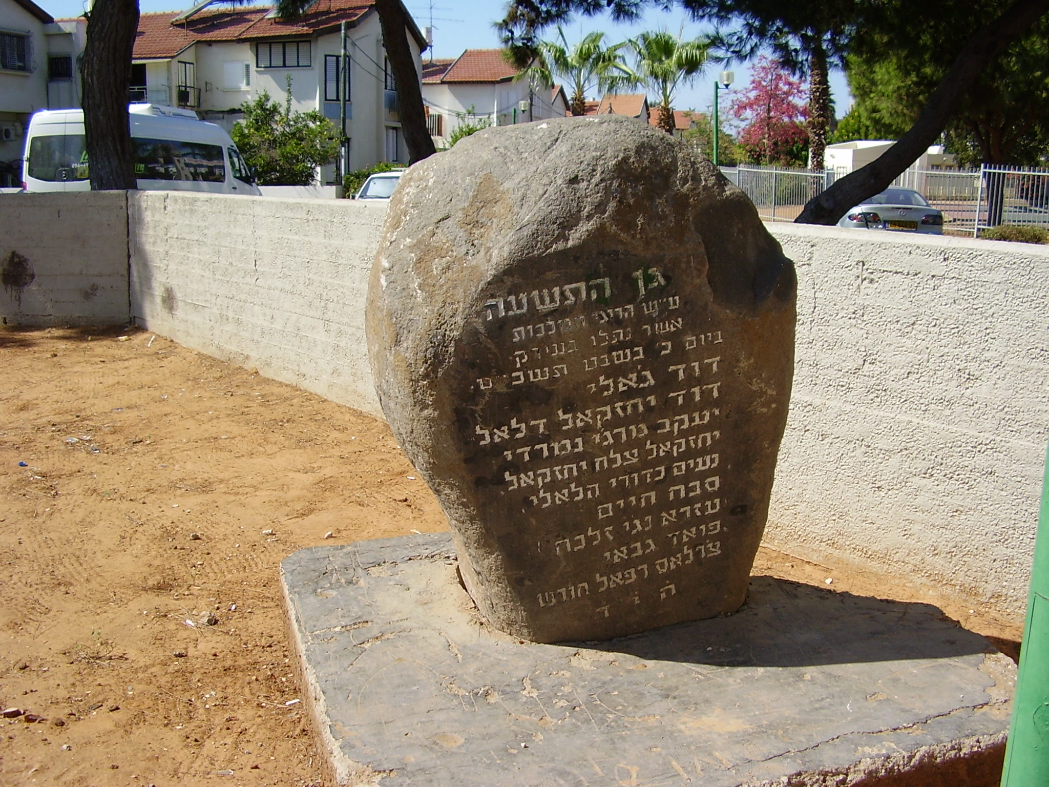 Memorial, located in Or Yehuda, dedicated to Iraqis killed in 1969